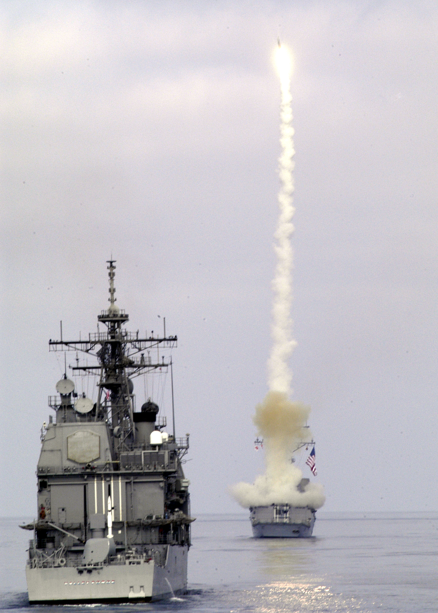 Aboard USS Shiloh (CG 67) Oct. 15, 2003 -- USS Preble (DDG 88) fires a surface-to-air SM2 missile while conducting missile-firing exercises off the coast of Southern California. Also participating in the exercises were USS Mobile Bay (CG 53), USS Valley Forge (CG 50), and USS Shiloh (CG 67). U.S. Navy photo by Photographer's Mate 2nd Class Juan Eduardo Diaz. (RELEASED)